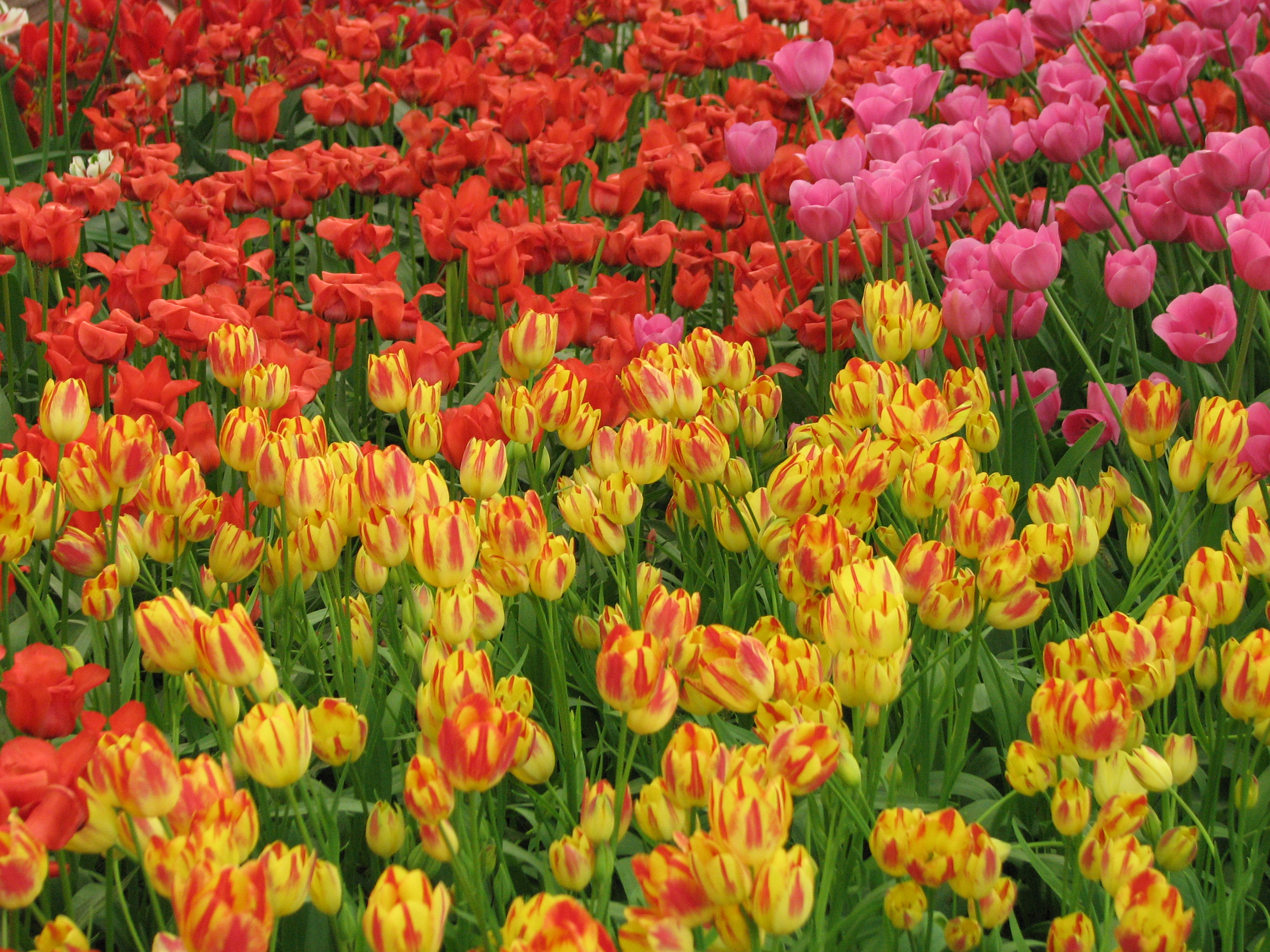 Tulips in the garden "Aptekarsky Ogorod" (Botanical garden of Moscow State University on Prospekt Mira)